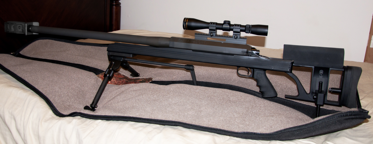 ArmaLite AR50-A1 with Allied Precision Arms Bi-pod, Mono-pod, Cant lock extension, and recoil pad quick adjuster.